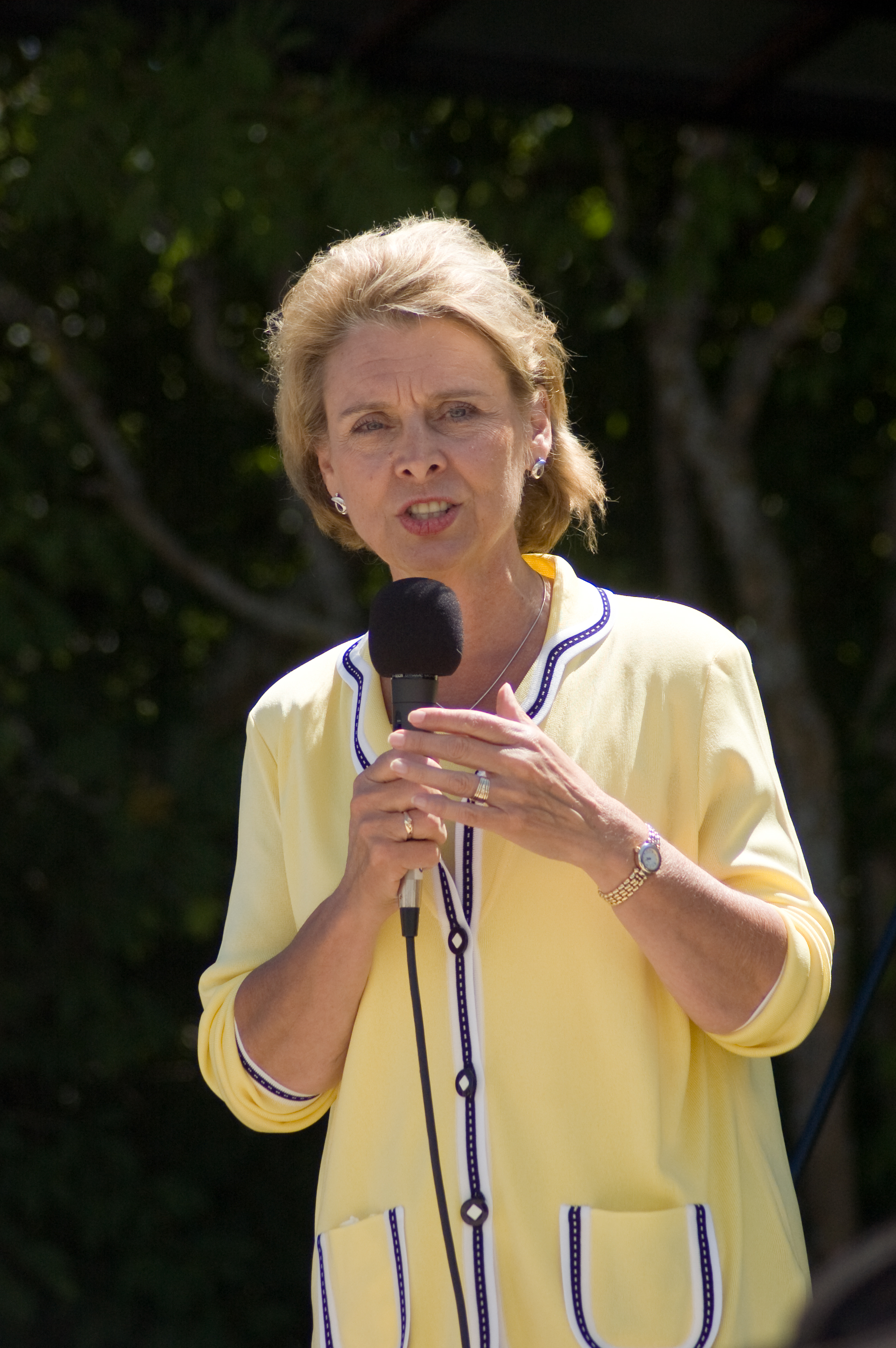 Christine Gregoire speaks at a campaign rally in Langley, WA, during the state's 2008 election.